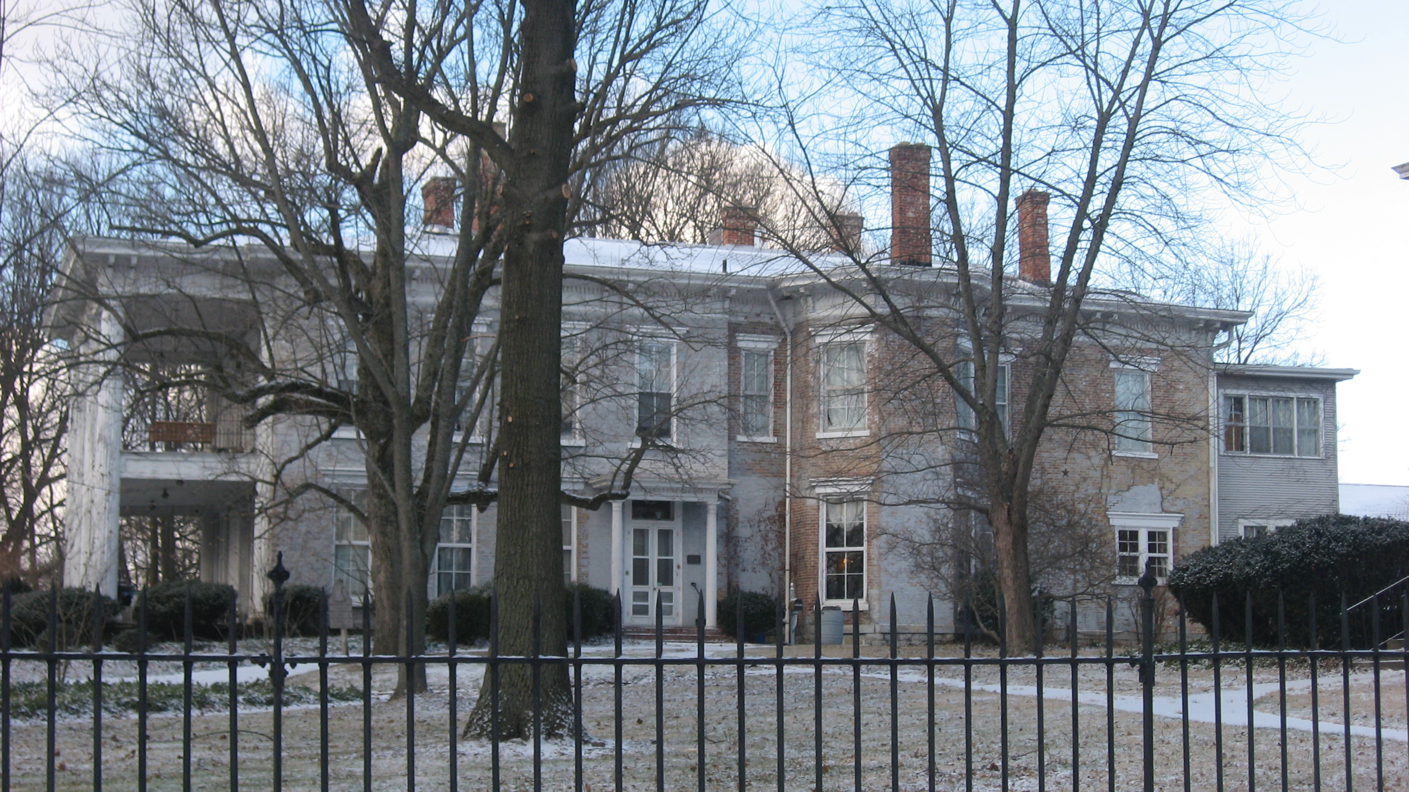 Eastern side and front of the Shirk-Edwards House, located at 50 N. Hood Street in Peru, Indiana, United States. Built in 1867, it is listed on the National Register of Historic Places, and it is a part of the locally-designated Peru West Side Historic District.